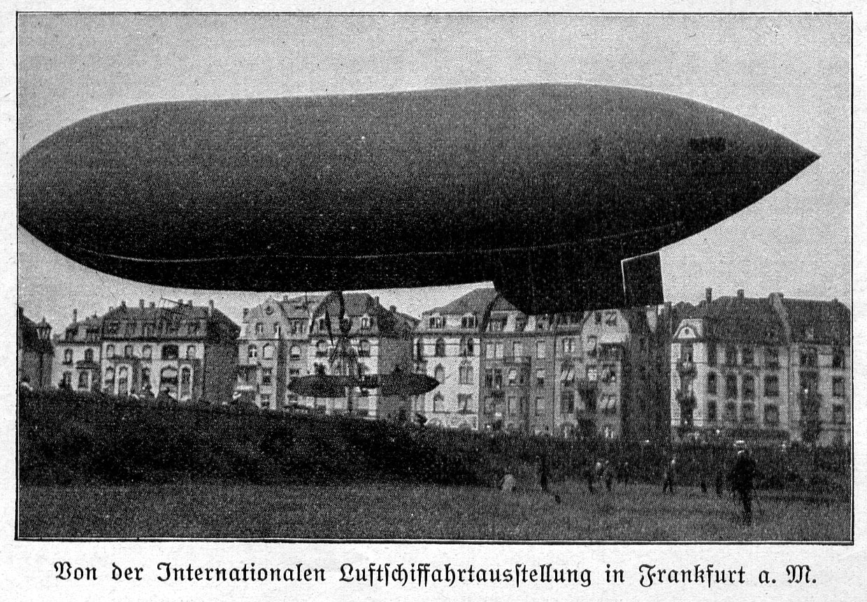 A balloon airship close to the ground at the "Internationale Luft- und Raumfahrtausstellung Frankfurt" 1909. This international airship event lasted 100 days and was the world's largest of this kind ever.